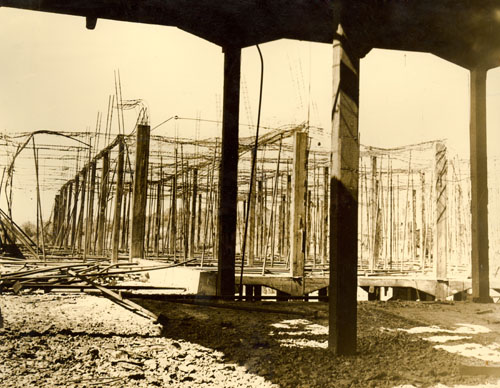 In August 1955, violent fire broke out in Refrigerator Minas Gerais SA (Frimisa). The Frimisa was situated in the municipality of Santa Luzia. After verifying the losses from this disaster, the fridge has taken steps that put her as a pioneer of prevention policies.